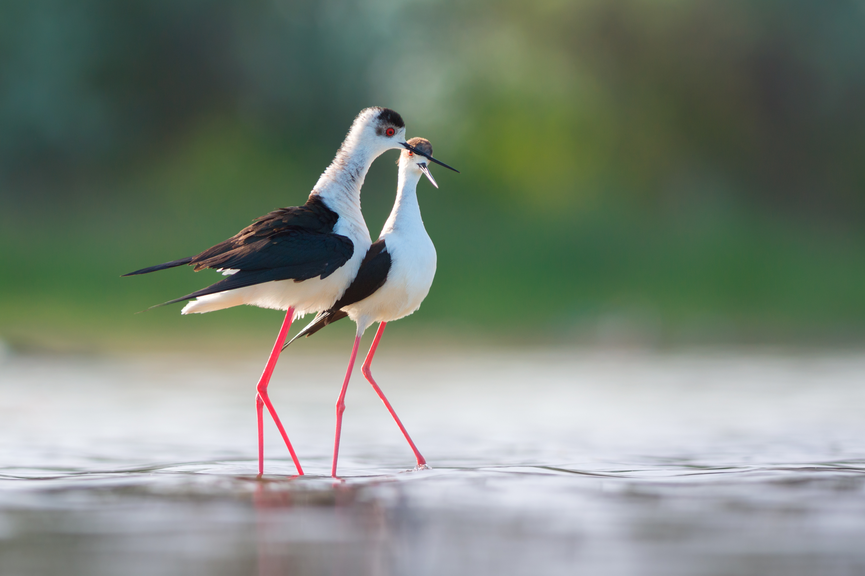 Black-winged stilt courtship behaviour (Himantopus himantopus). Kinburn Peninsula, Ukraine